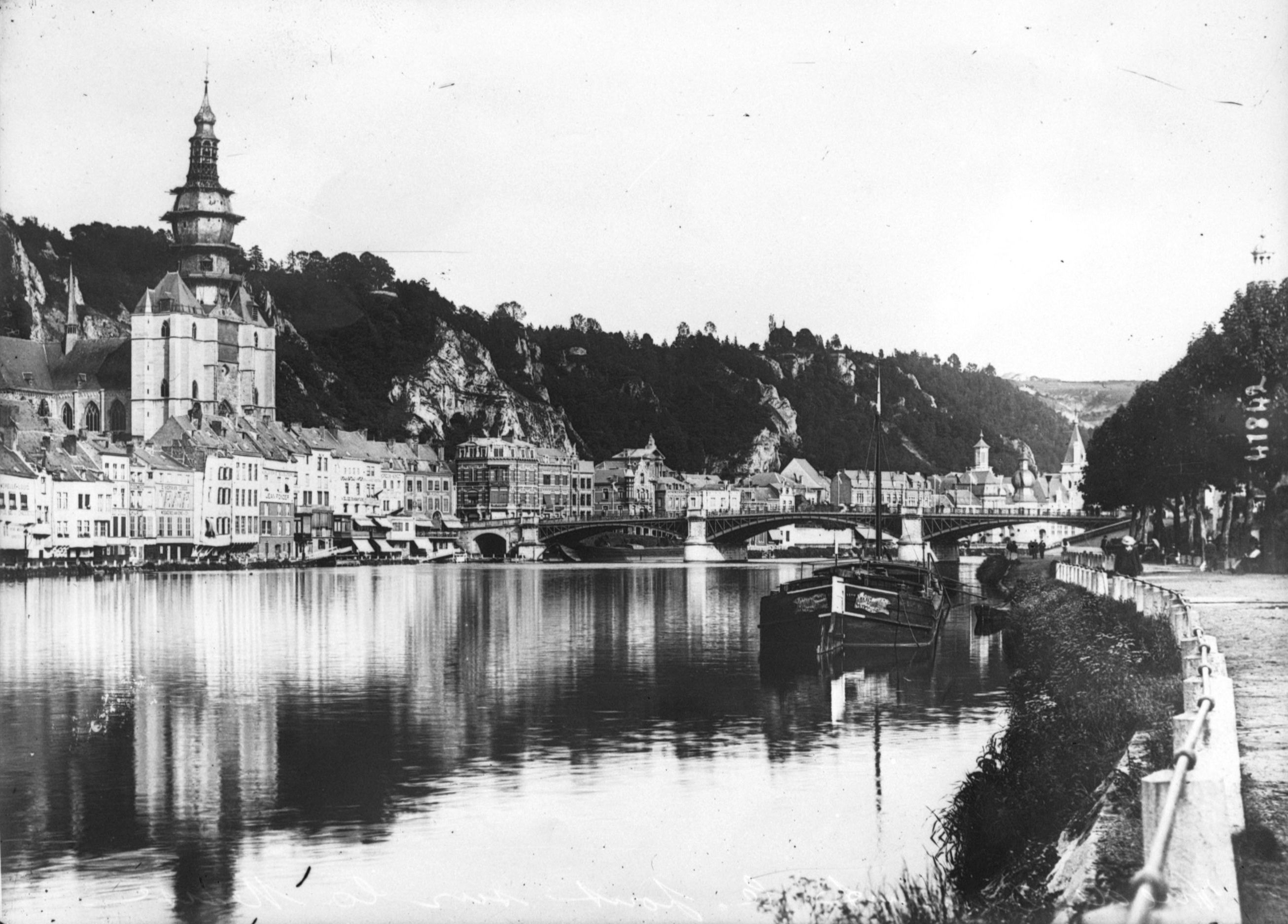 View of Dinant, Belgium